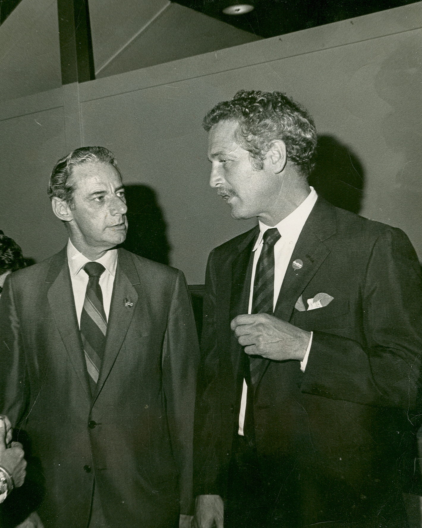 Willimantic Mayor Alfred H. Noel with actor Paul Newman.